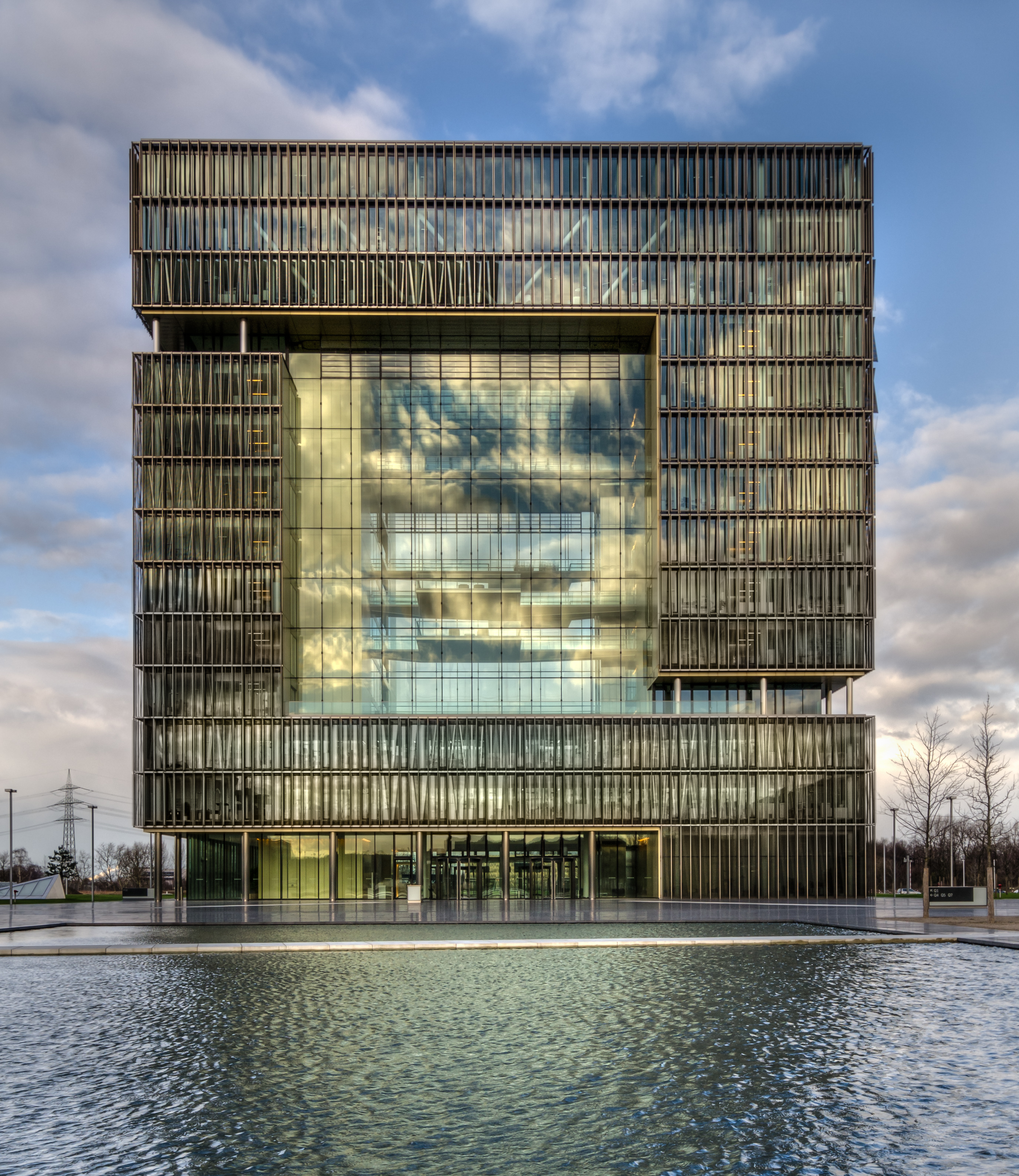 Corporate Headquarter of ThyssenKrupp, building Q1